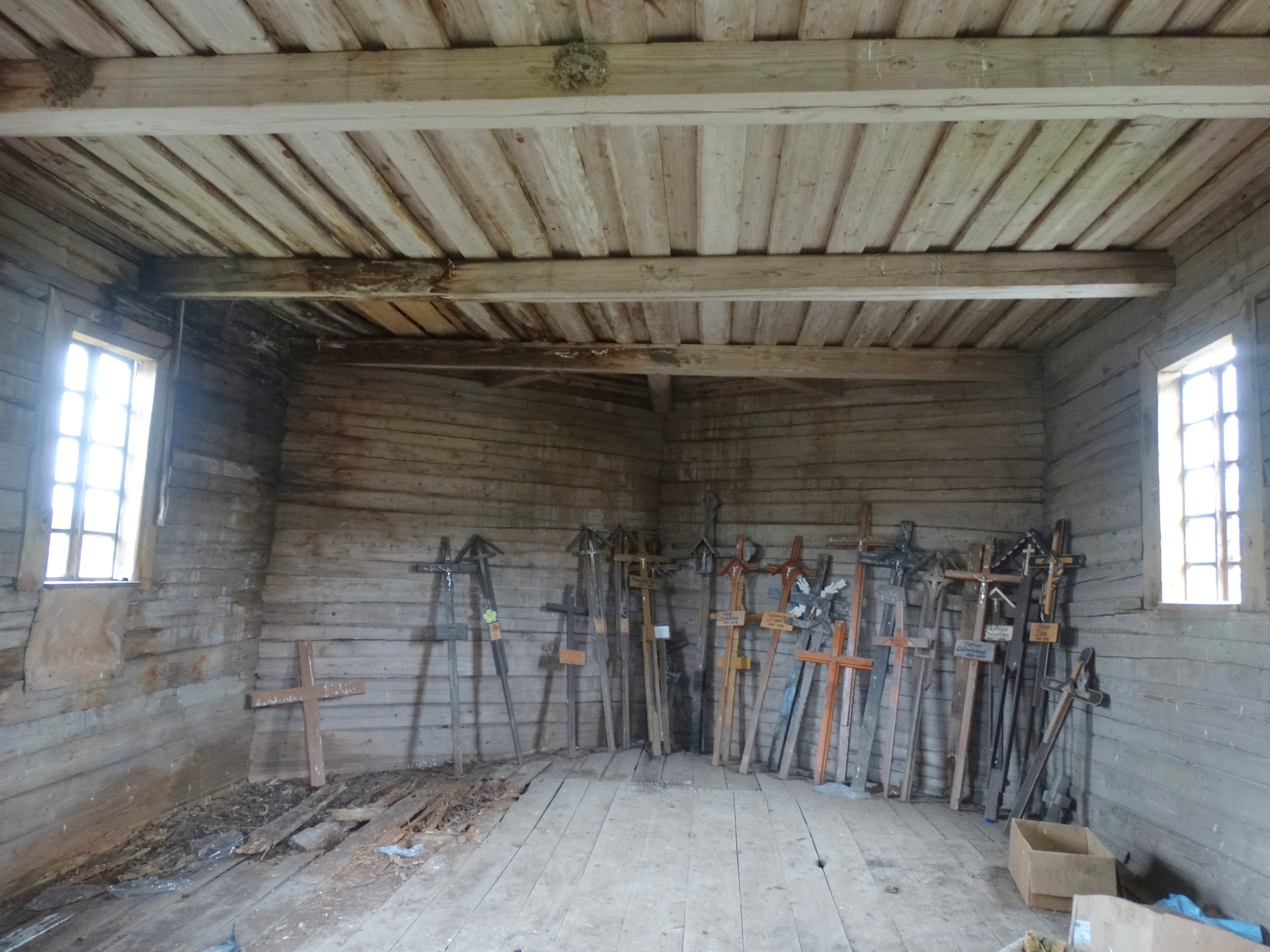 Cemetery chapel, Pabaiskas, Ukmergė district, Lithuania